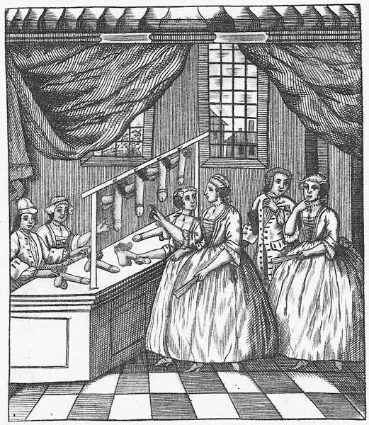 Illustration from the book L'Academie des Dames by Nicolas Chorier